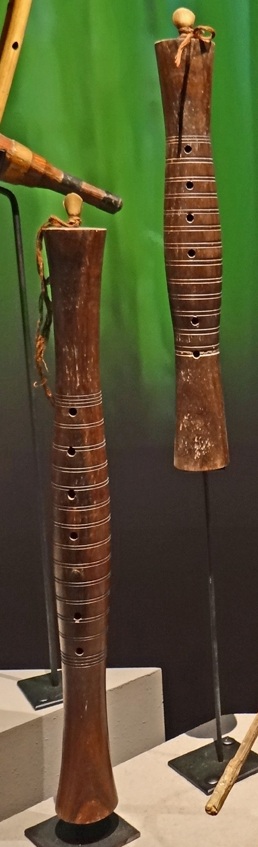 The srali is a relative of the oboe, using reeds inserted into the end to make noise. The srali thom on the left (thom means big) and the srali touch (toch or touch means small) can both be called simply srali.